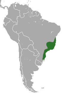 Ihering's Short-tailed Opossum (Monodelphis iheringi) range